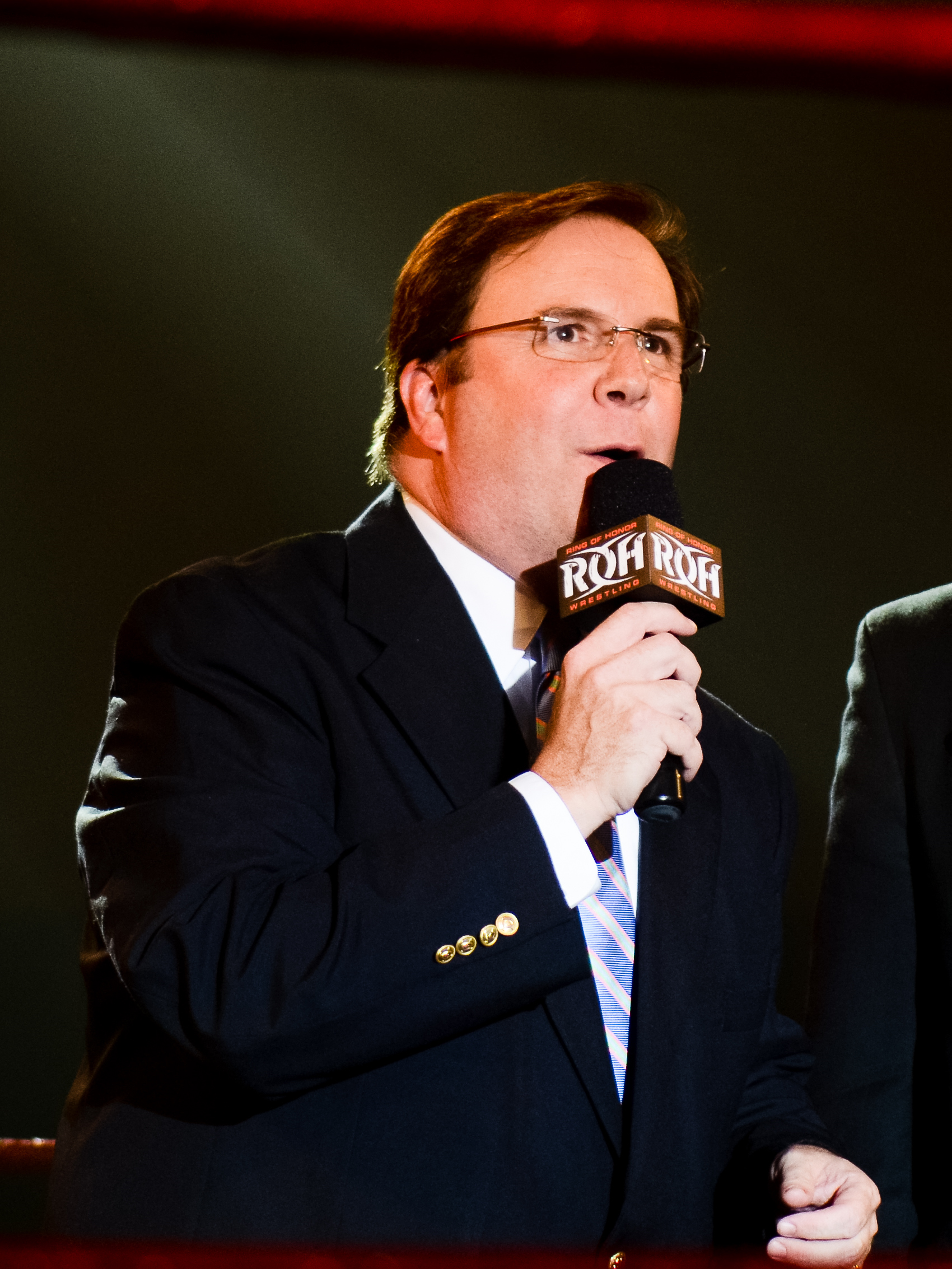 Kevin Kelly, a commentators for Ring of Honor Wrestling, at a Ring of Honor show on August 13, 2011.